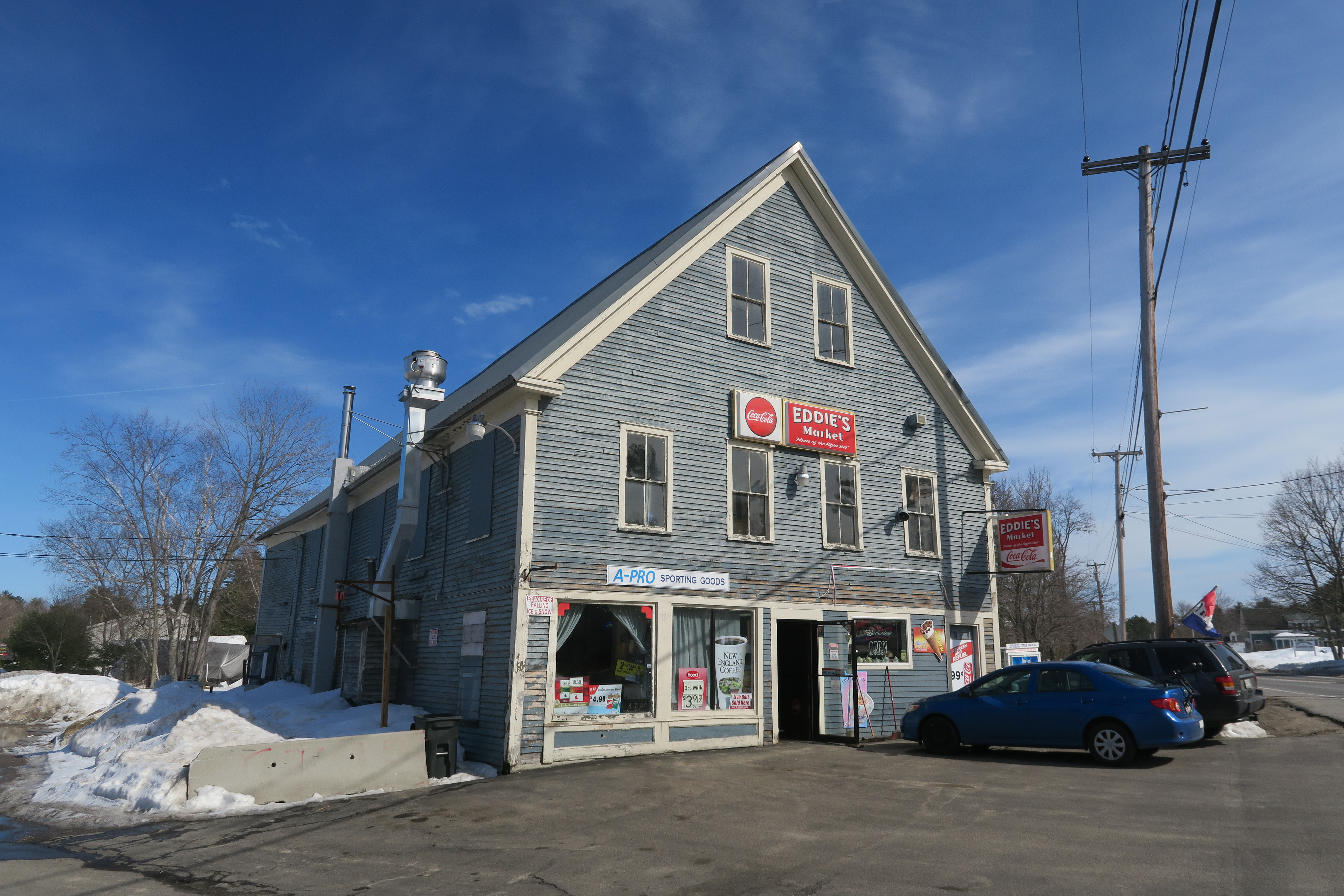 Eddies Market, Steep Falls Maine